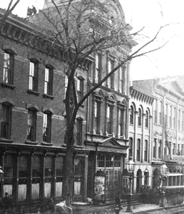 Washington Street entrance to the Brooklyn Theater, shortly after its destruction on the night of December 5, 1876. Camera is pointing south down Washington Street. First building, behind the tree, is the Dieter Hotel. The theater was an 'L' shaped structure that wrapped around this hotel. The next structure down the street is the Washington Street entrance of the Brooklyn Theatre. The narrow door on the left led to the gallery. Adjoining it is a wide double door that led into the vestibule and lobby. The Washington Street entrance seems hardly damaged; the brownstone has been darkened by the traces of smoke. Two people are on the roof of the theater, possibly looking down at the ruins of the auditorium. The small building to the right of the theater is the First Precinct Station House, Brooklyn municipal police, which was threatened by the blaze. A crowd of people are at the front door, possibly among those inquiring after missing people. Barely visible to the right of the frame is the central U. S. Post office. Compare with a view of the theater before the blaze.